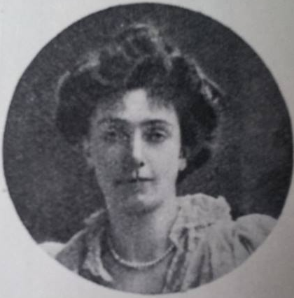 Engraved photograph of author Marian Pritchard, aka Mrs Eric Pritchard, in 1902